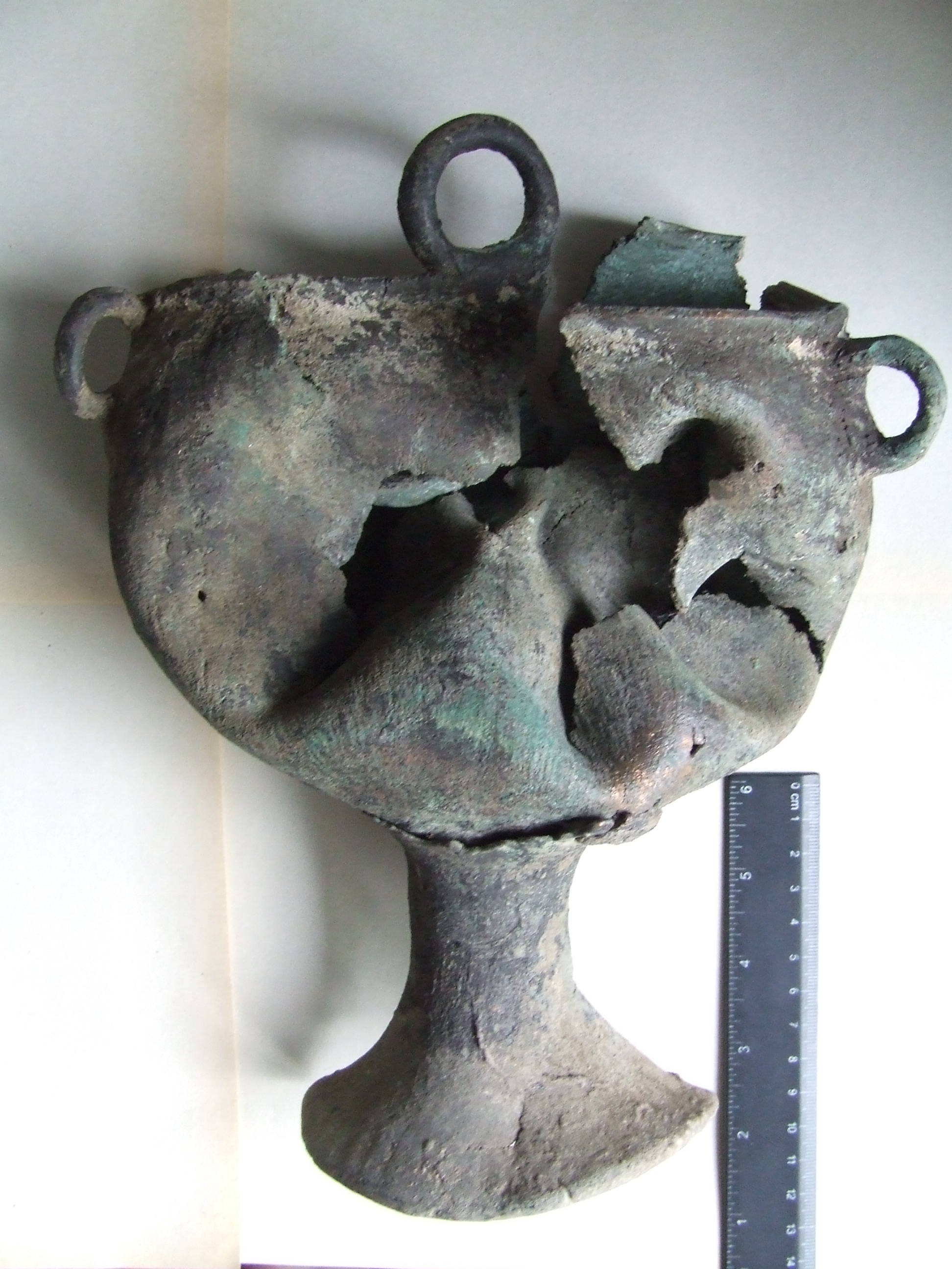 Sarmatian earthenware dated by I-II century A.D. which was found in the process of archeological excavations in year of 2013 in Tokmak district of Zaporizhzhia region in Ukraine